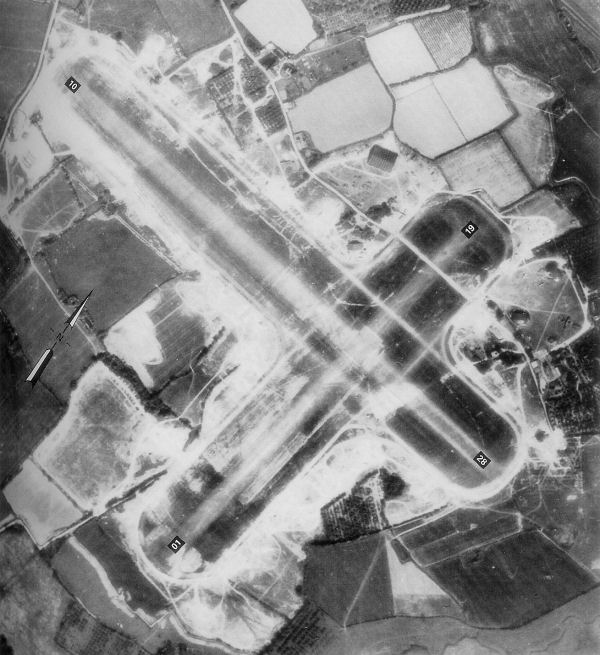 Aerial photograph of Staplehurst ALG (Advanced Landing Ground), England, 21 May 1944